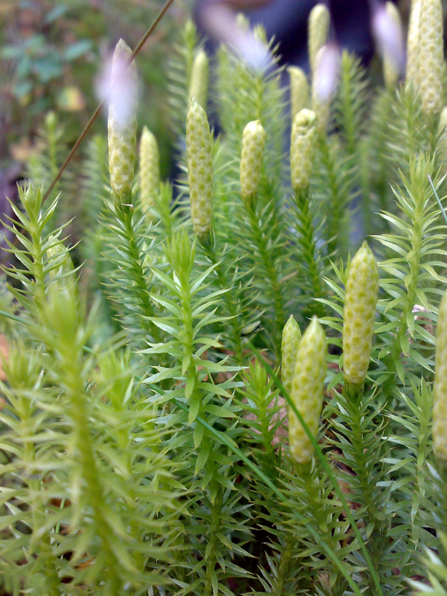 Lycopodium annotinum in Sigdal (Buskerud), Norway. Altitude 900 metres.